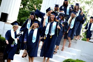 Graduating Seniors passing through the Columns at Westminster College